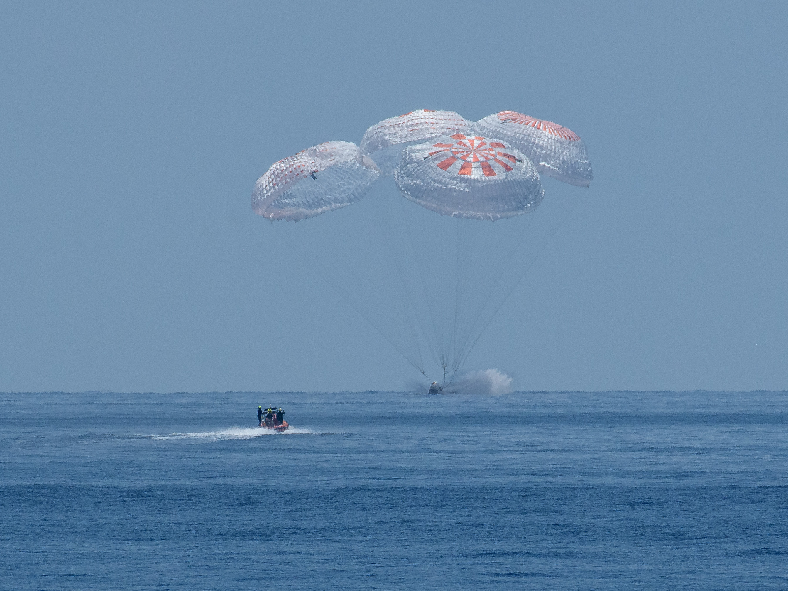 The SpaceX Crew Dragon Endeavour spacecraft is seen as it lands with NASA astronauts Robert Behnken and Douglas Hurley onboard in the Gulf of Mexico off the coast of Pensacola, Florida, Sunday, Aug. 2, 2020. The Demo-2 test flight for NASA's Commercial Crew Program was the first to deliver astronauts to the International Space Station and return them safely to Earth onboard a commercially built and operated spacecraft. Behnken and Hurley returned after spending 64 days in space. Photo Credit: (NASA/Bill Ingalls)